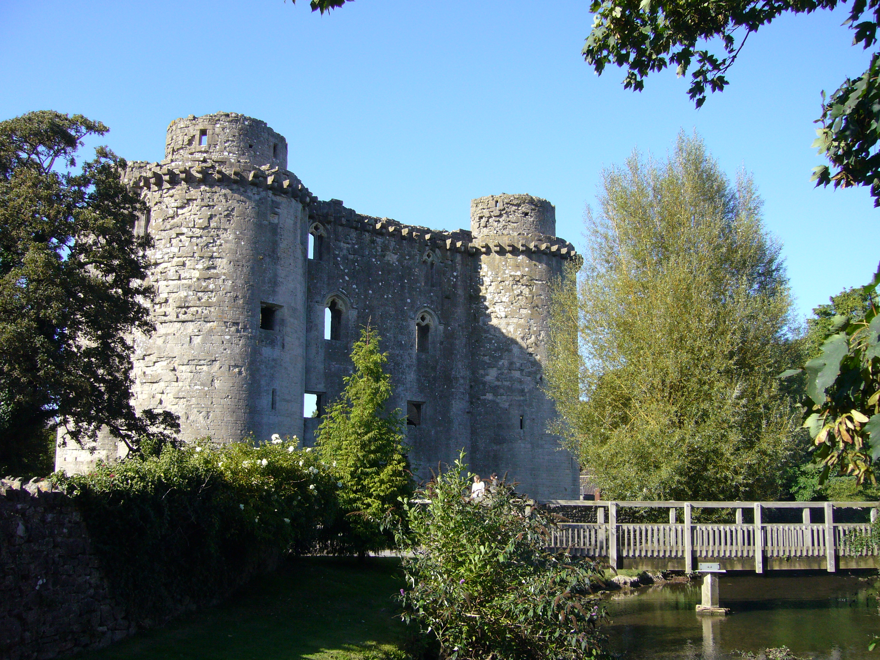 Nunney castle. Photographed in September 2007. Required attribution is: Photo by Tom Oates.